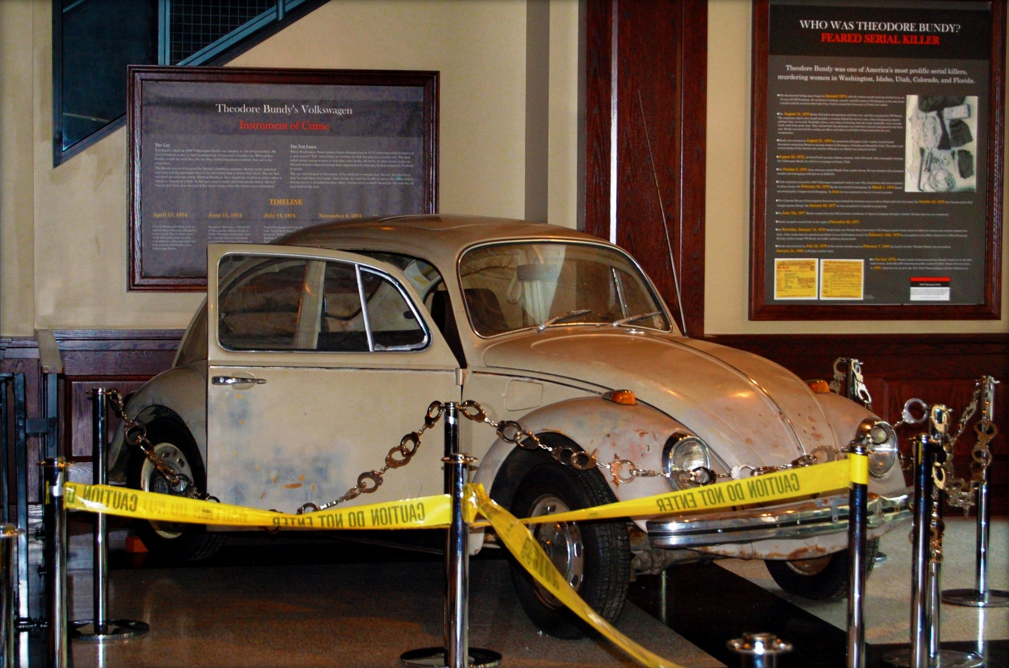 Ted Bundy's 1968 VW Beetle. This was the car he used for most of his murders. Now on display at the National Museum of Crime & Punishment in Washington, DC